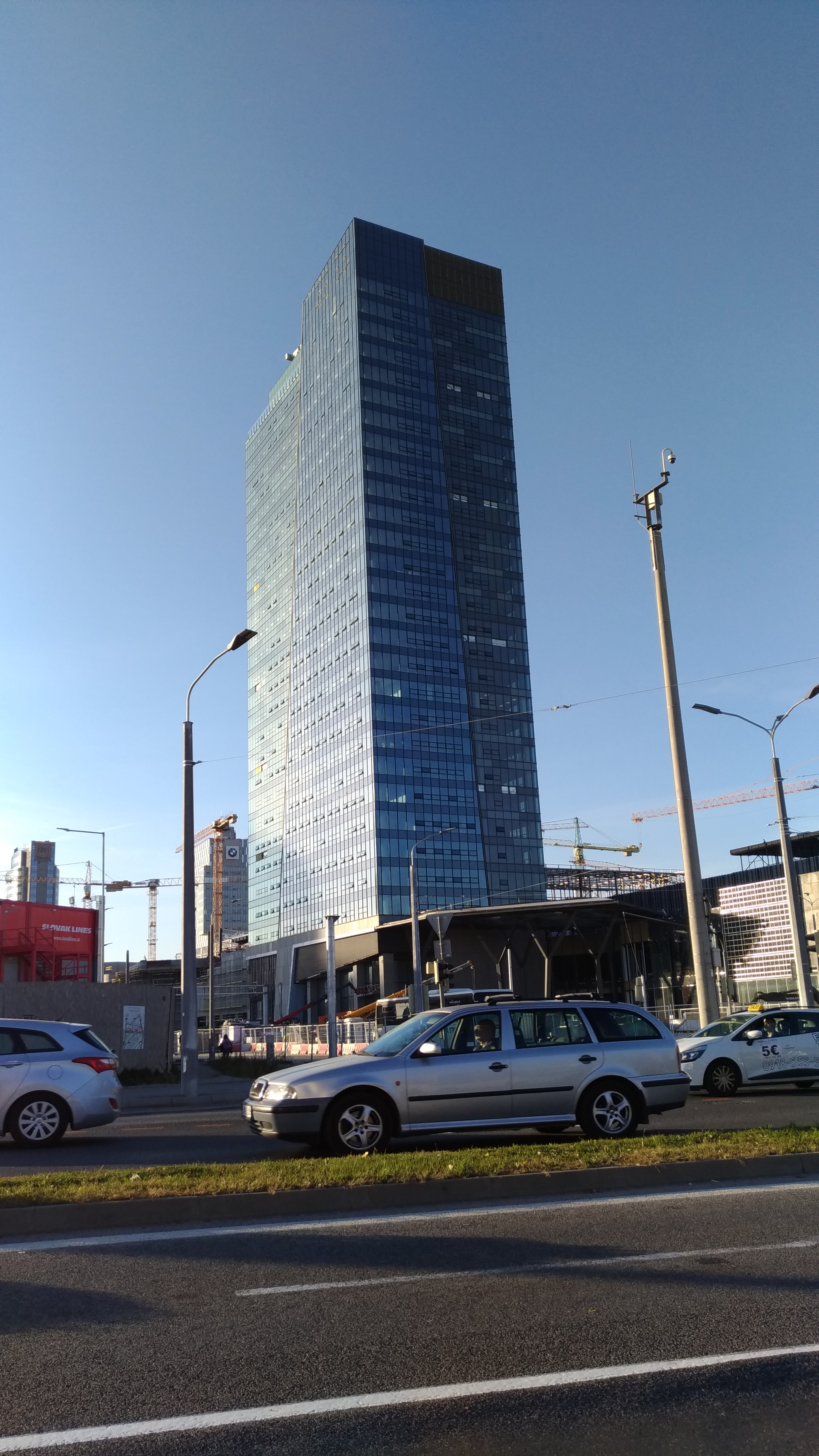 Nivy Tower in Bratislava